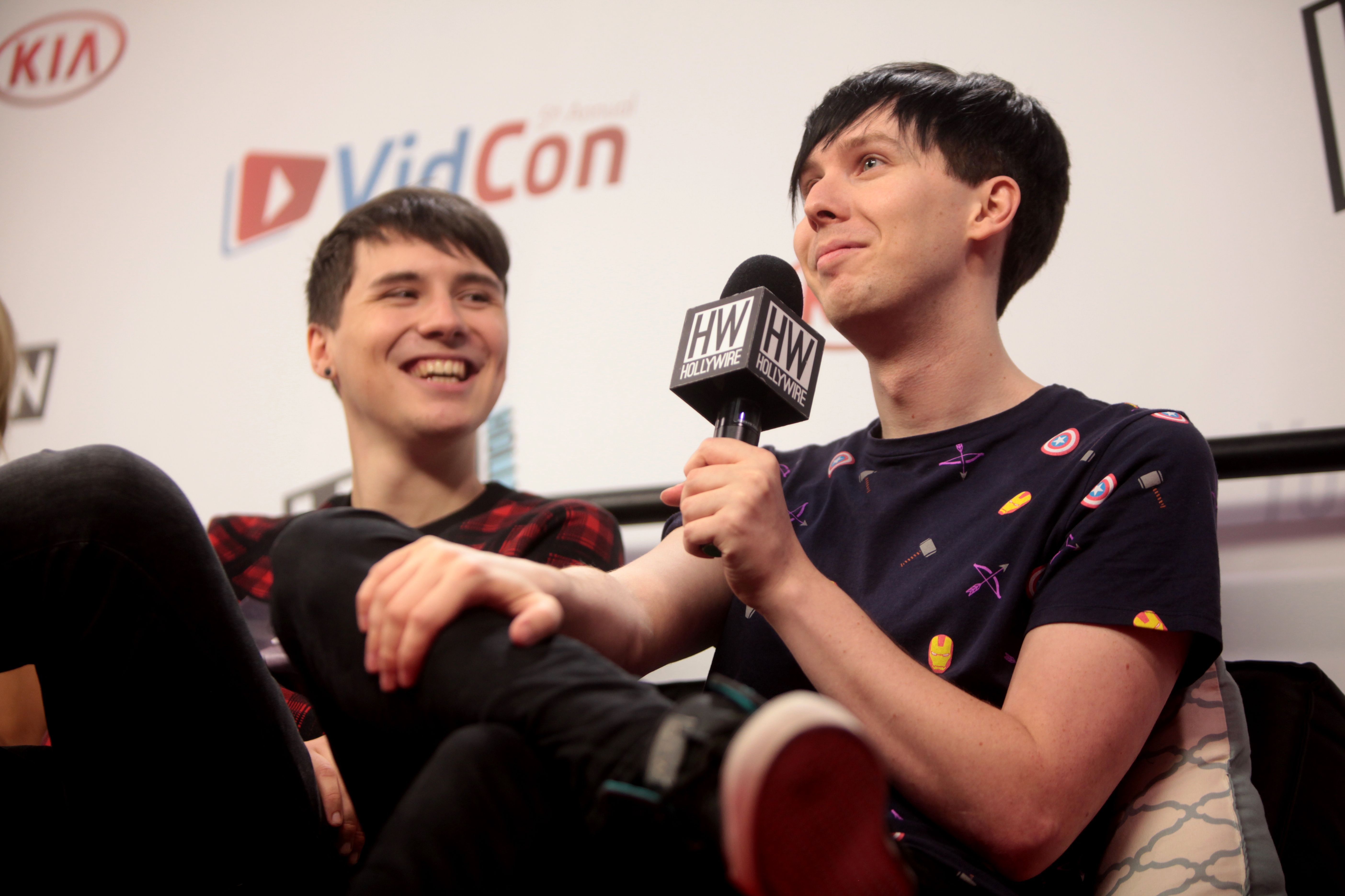 Dan Howell and Phil Lester speaking at the 2014 VidCon at the Anaheim Convention Center in Anaheim, California.